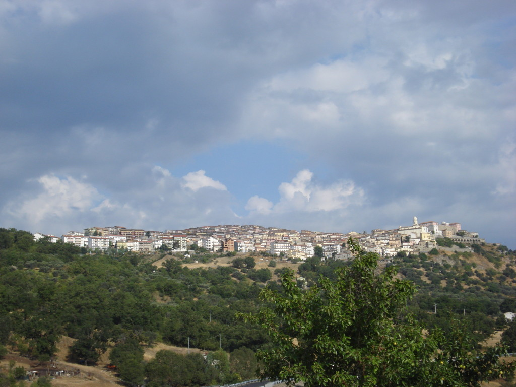 Overview of Corleto Perticara (Potenza / Italy) from the Sauro torrent